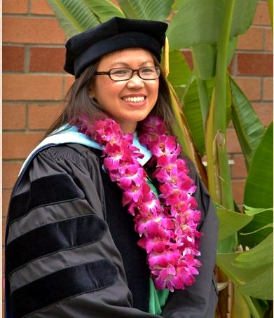 A 2013 photo of Ketmani Kouanchao at CSU Fullerton on her graduation day when she received her Ed.D. in Community College Leadership.